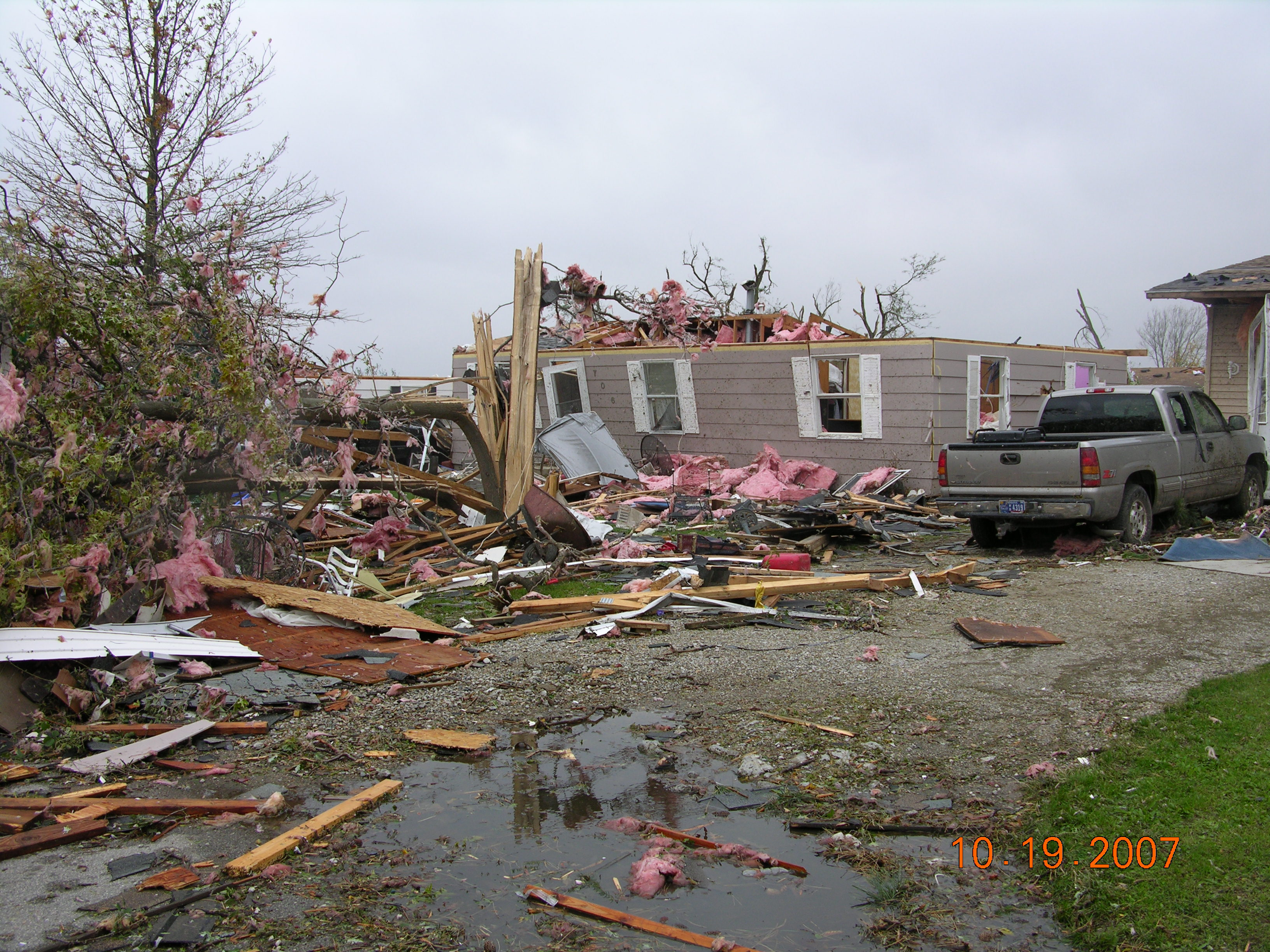 Heavy damage to a residential home in Nappanee, Indiana that was caused by an EF3 tornado on October 18, 2007 (Courtesy of NWS Northern Indiana)